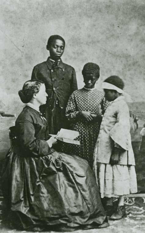 Portrait of teacher Laura M. Towne, a founder of the Penn School, with students Dick, Maria and Amoretta.